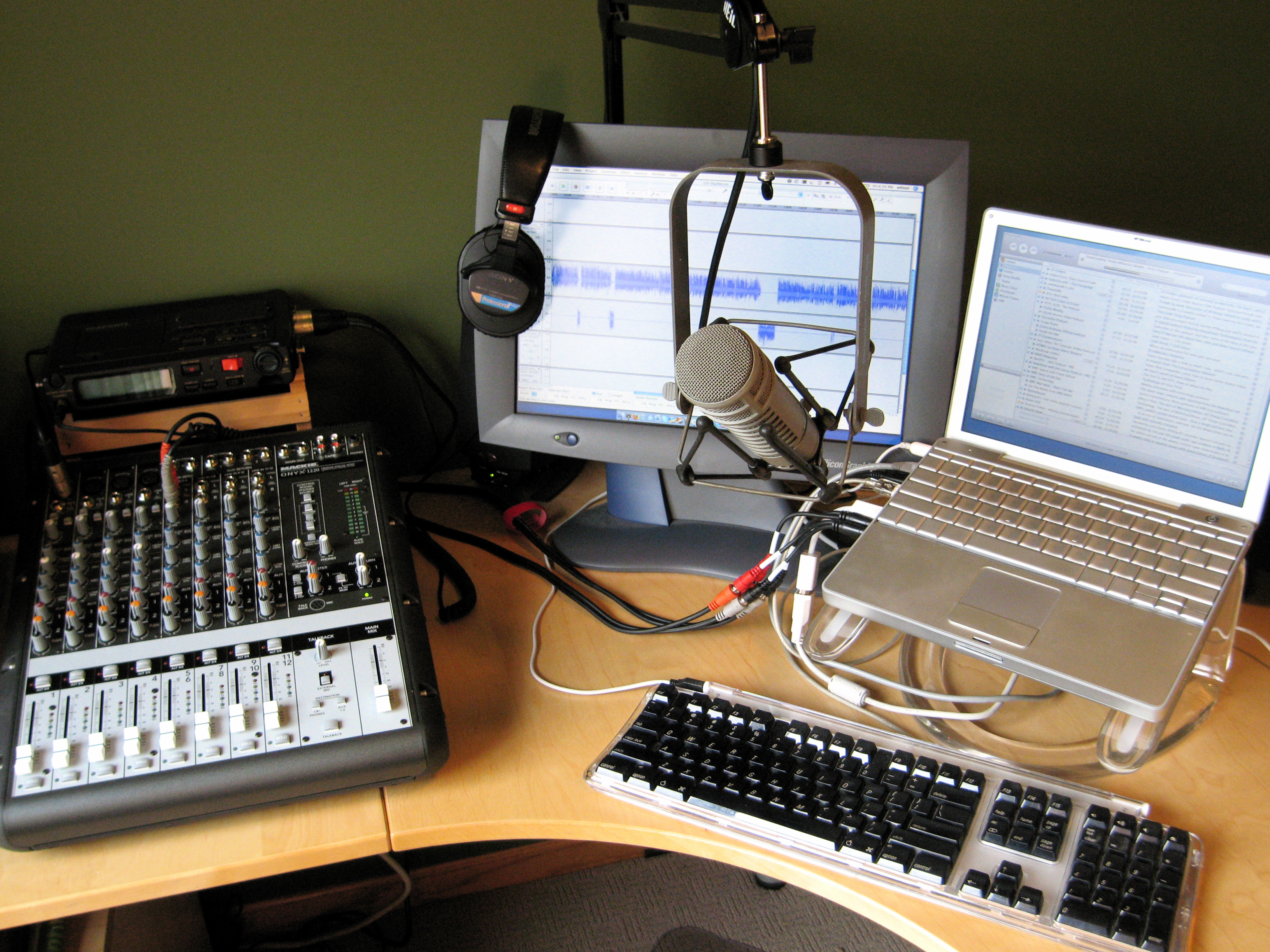 I bought some new gear so I thought a photo update of the "podcave" was in order. Marantz PMD670 solid state recorder (about $600 from eBay) with a 2-GB compact flash card. Mackie Onyx 1220 mixer (about $400 from eBay). This is a great mixer which is small enough to be mobile if necessary. Sony MDR-7506 headphones (about $90 from eBay). I replaced the stock earpads with a set made for Beyerdynamic DT250 headphones. They're made of velour and are much more comfortable. Electro-Voice RE20 microphone and a Model 309 shockmount. (Cost was about $300 from eBay) Heil PL-2 boom (about $80). I had to have one large enough to reach over my display.